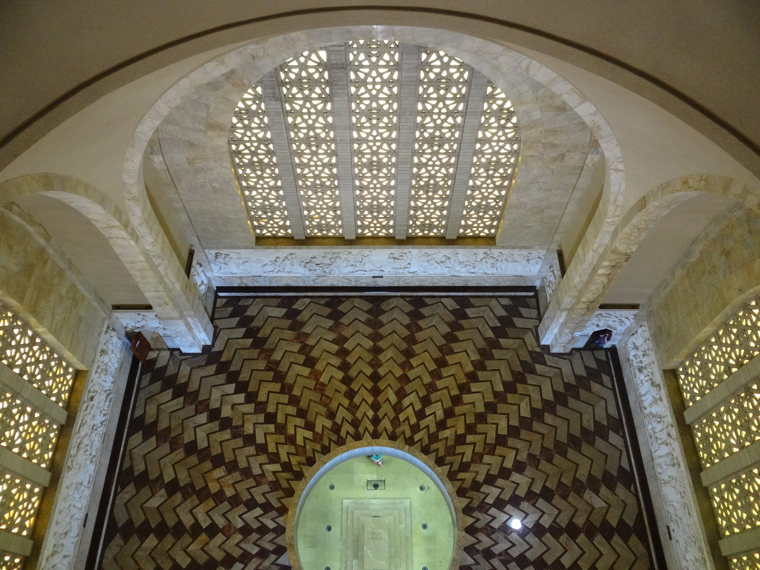 This media shows a South African Protected Site with SAHRA file reference 9/2/258/0097.